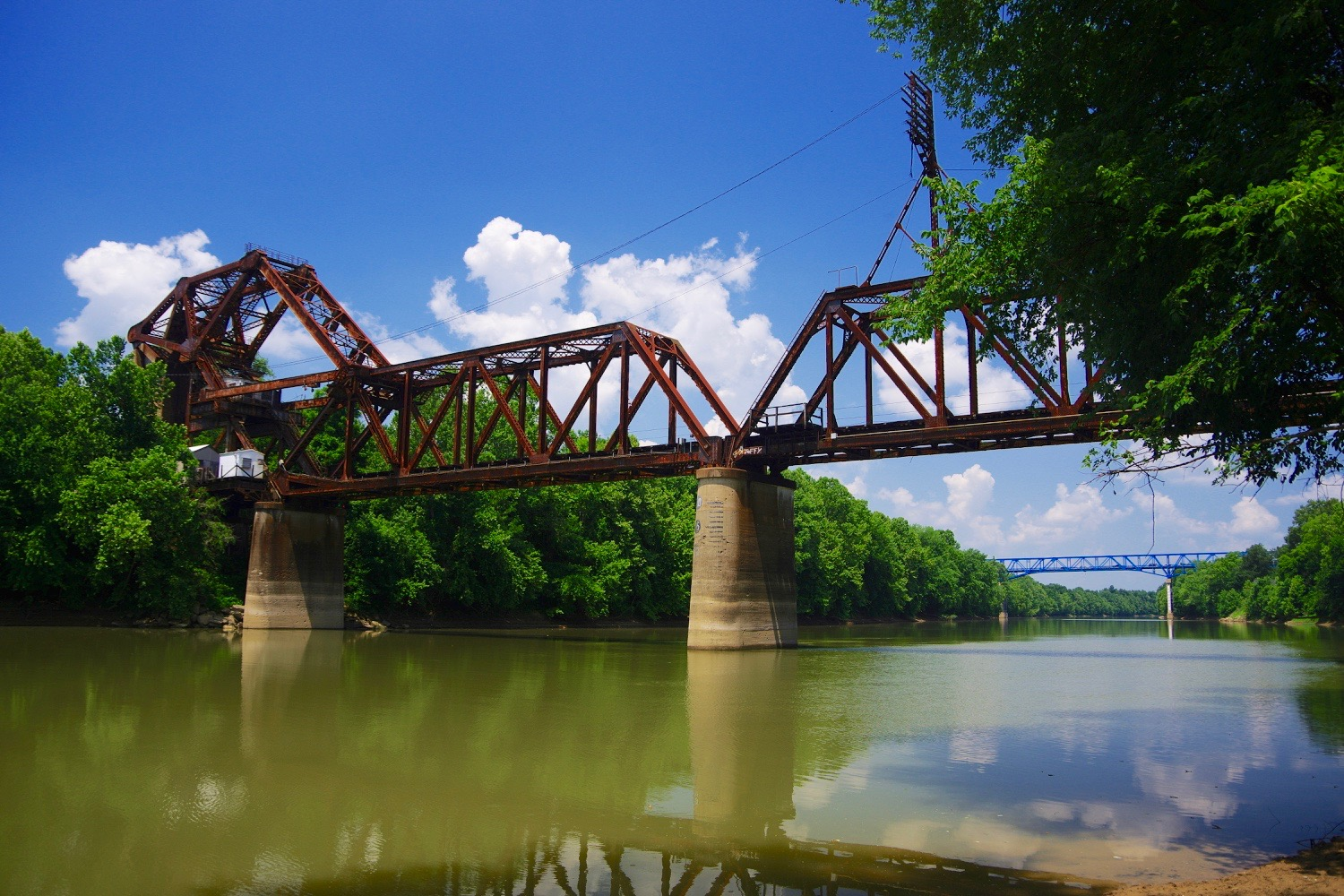 Railroad bridge over the Green River in Rockport, Kentucky, United States.